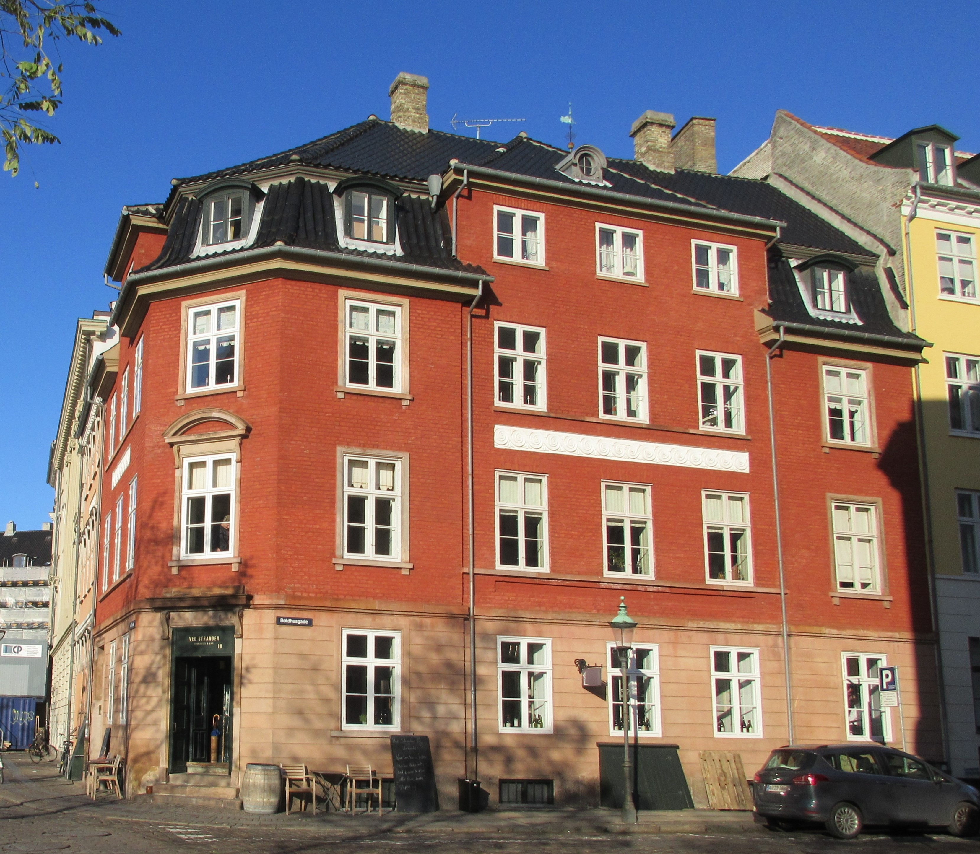 Sundorphs Hus at Ved Stranden 10 in Copenhagen, Denmark